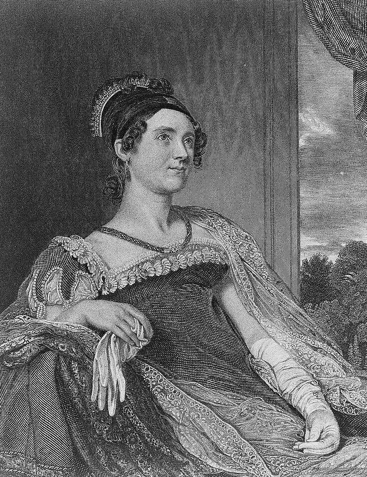 Mrs. John Quincy Adams, half-length portrait, seated, facing right.